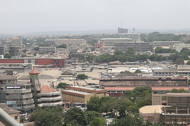 Taken by Guido Sohne with a Canon EOS 30D camera. Panorama view of Accra, Ghana.